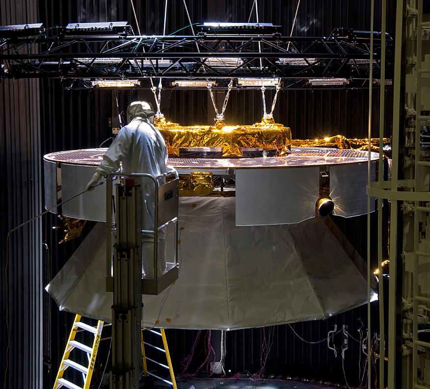 Testing of the cruise stage for NASA's Mars Science Laboratory in August 2010 included a session in a facility that simulates the environment found in interplanetary space. In this Aug. 24, 2010, photograph, a spacecraft technician at NASA's Jet Propulsion Laboratory, Pasadena, Calif., prepares for a test in the space simulation chamber. Solar panels are visible on the upper surface of the cruise stage. The testing chamber, 25 feet in diameter and 76 feet high, can simulate the cold, vacuum environment of space. Its 37 xenon lamps, each with about 25,000 watts, mimic the spacecraft's exposure to intense light from the sun.